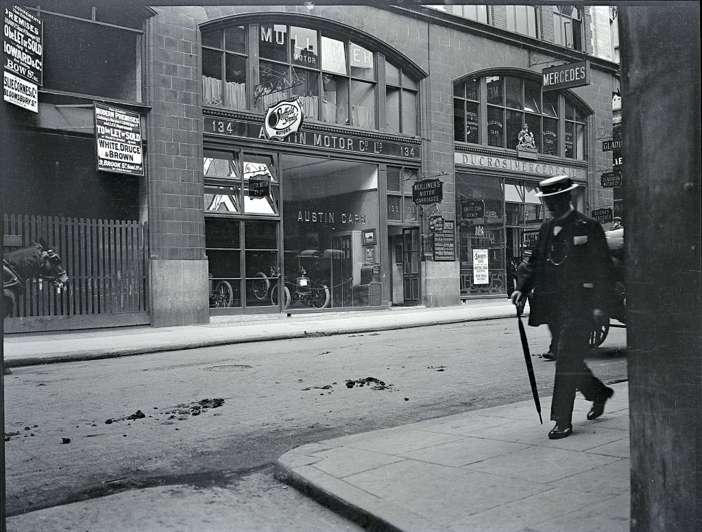 Austin Motors showroom, Long Acre, London. Ducros Mercedes' showroom is adjacent. These showrooms are in the street level of the factory building Mulliners opened in 1907, The Gladiator showroom became Austin. Postwar the building was used by Swift Motors. All occupants are associated with Harvey Du Cros